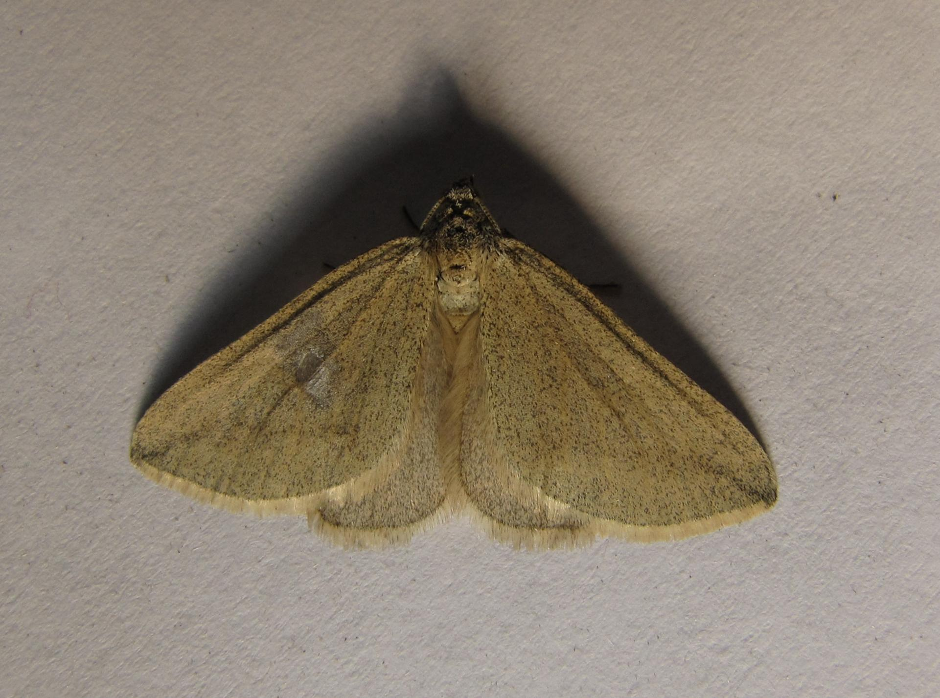 Lithostege griseata (Denis & Schiffermüller, 1775), Geometridae, Lepidoptera, Rangsdorf, Brandenburg, Germany